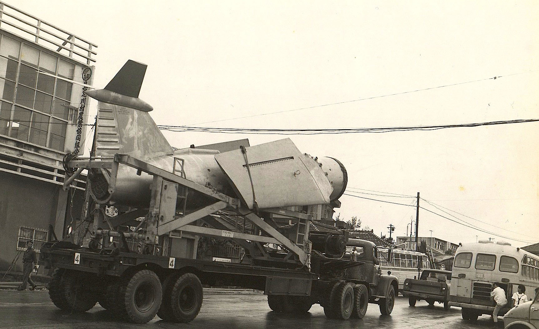 A TM-72 Mace missile is trundled through the Okinawa city of Gushikawa(具志川市) in the early 1960s in a rare open display. Alternate: A TM-76B (CGM-13B) barely clears an overhead power line at the village of Deragawa(Tairagawa 平良川) enroute to a launch site from the missile maintenance area, Kadena Air Base, Okinawa.